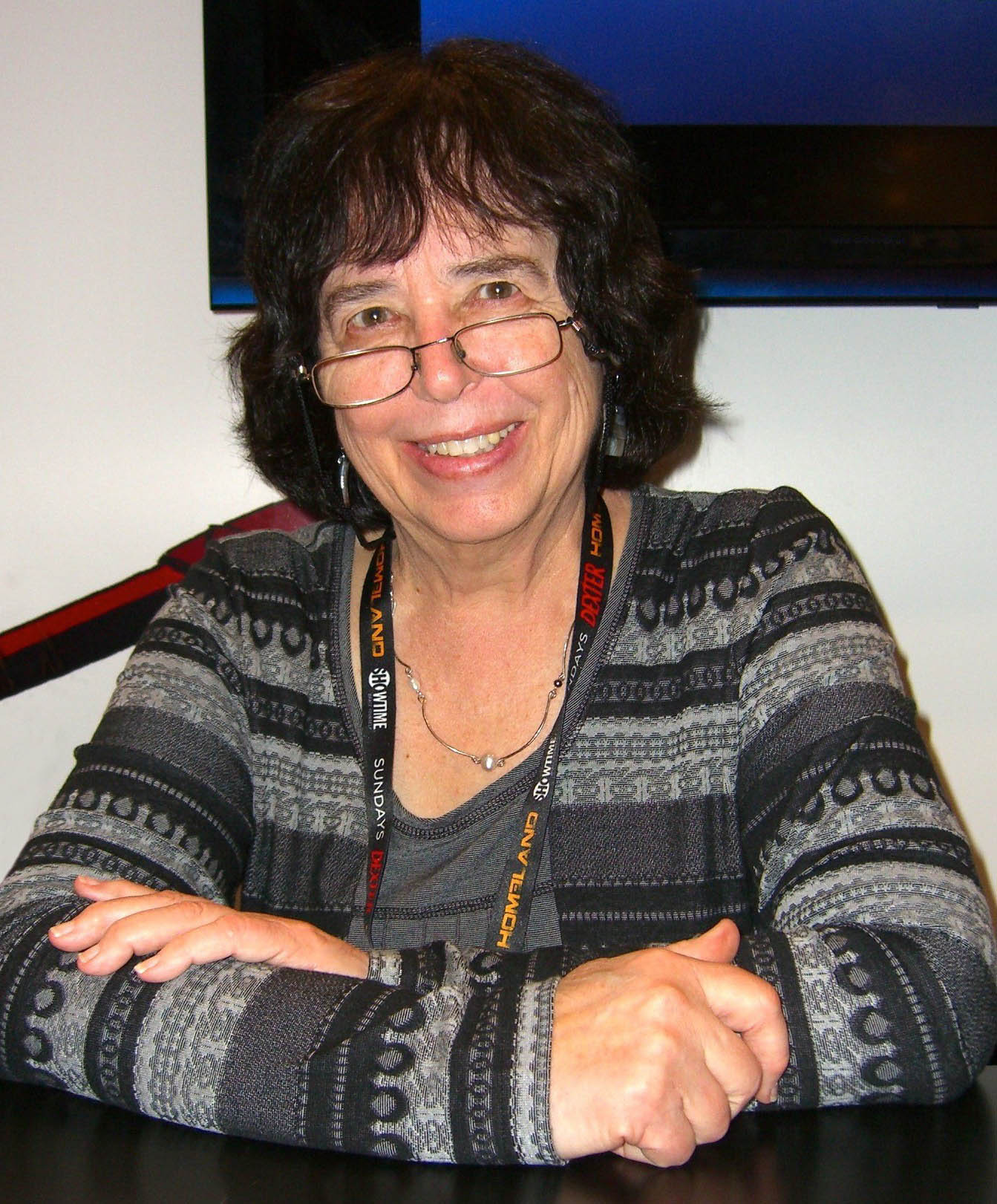 Author and editor Jane Yolen at the Dark Horse Comics booth at the New York Comic Con, October 15, 2011. This photo was created by Luigi Novi. It is not in the public domain, and use of this file outside of the licensing terms is a copyright violation.